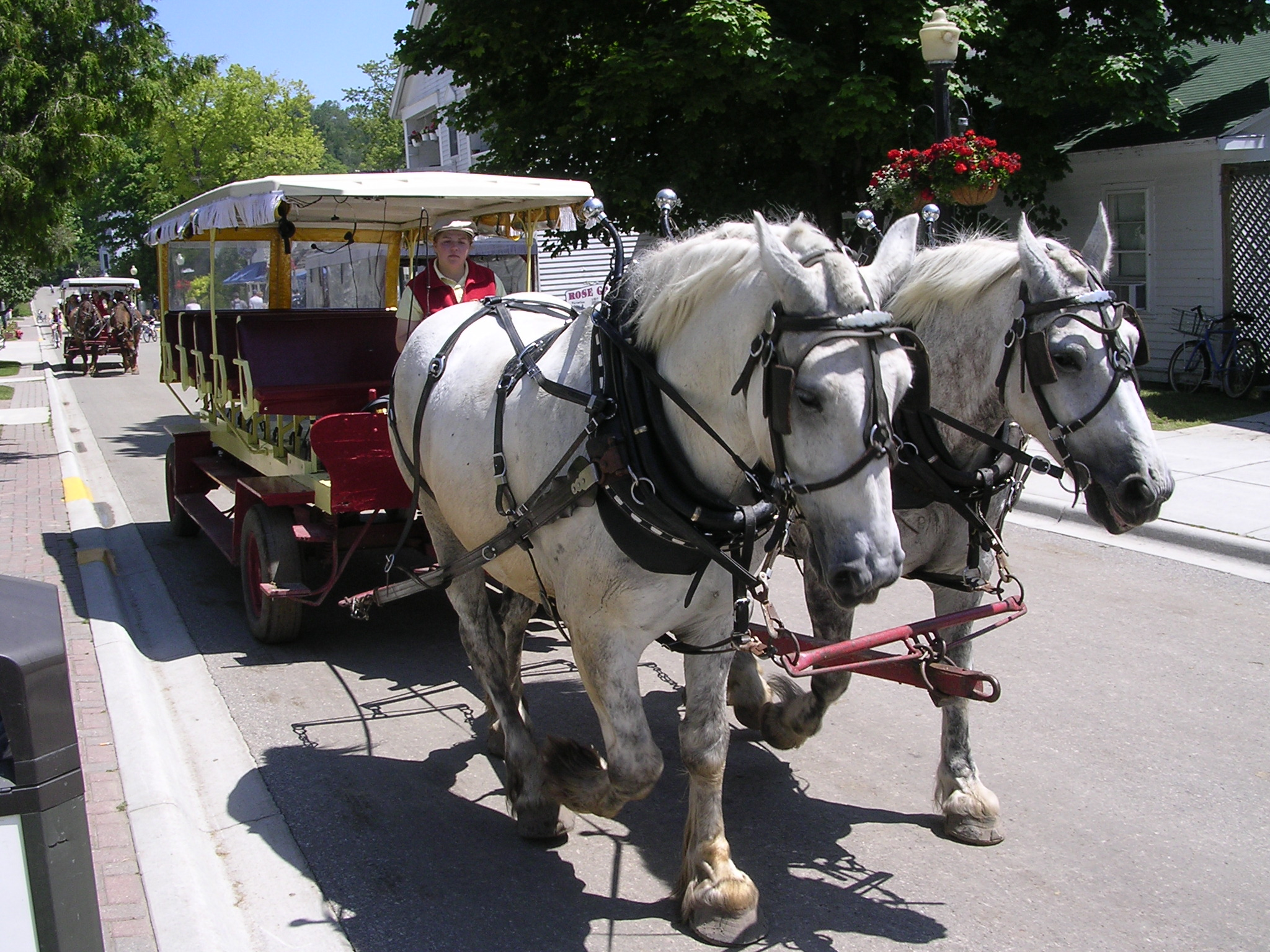 Carriage running in Mackinac Island, Michigan, United States.